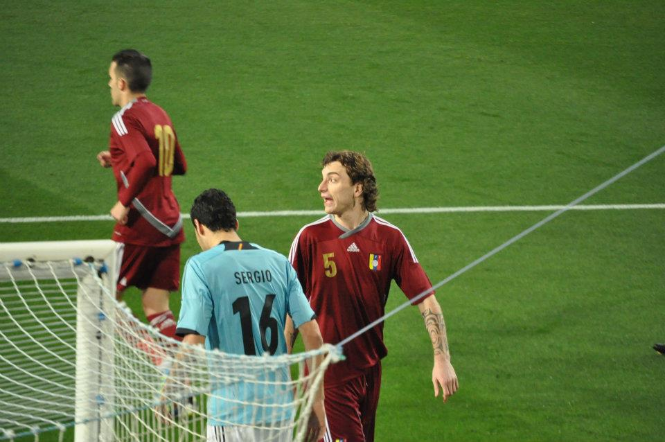 Fernando Amorebieta y Sergio Busquets.